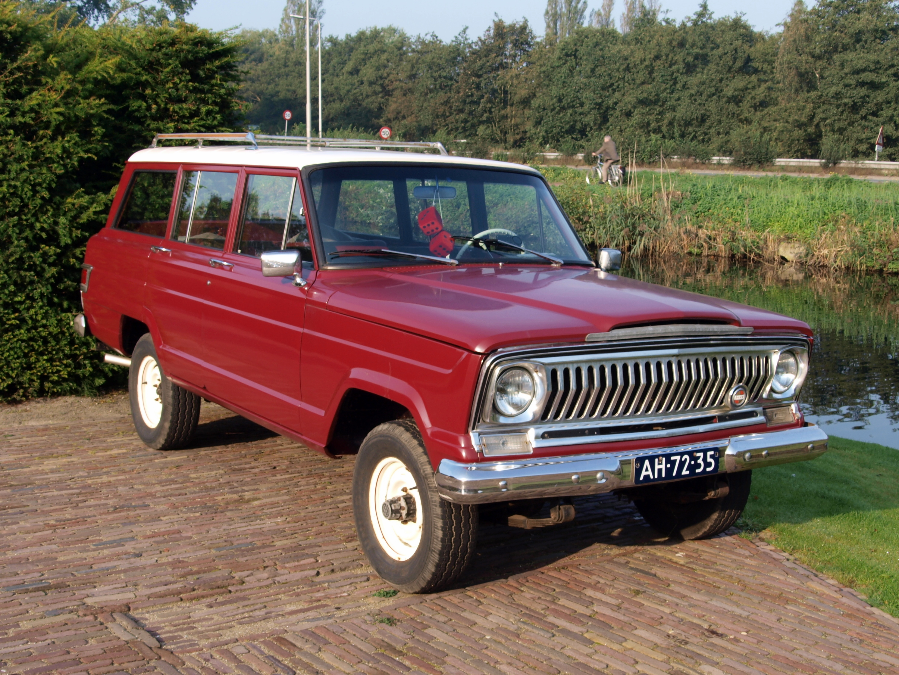 Photographed at the premmesis of the Louwman museum, The Hague, The Netherlands. OLYMPUS DIGITAL CAMERA